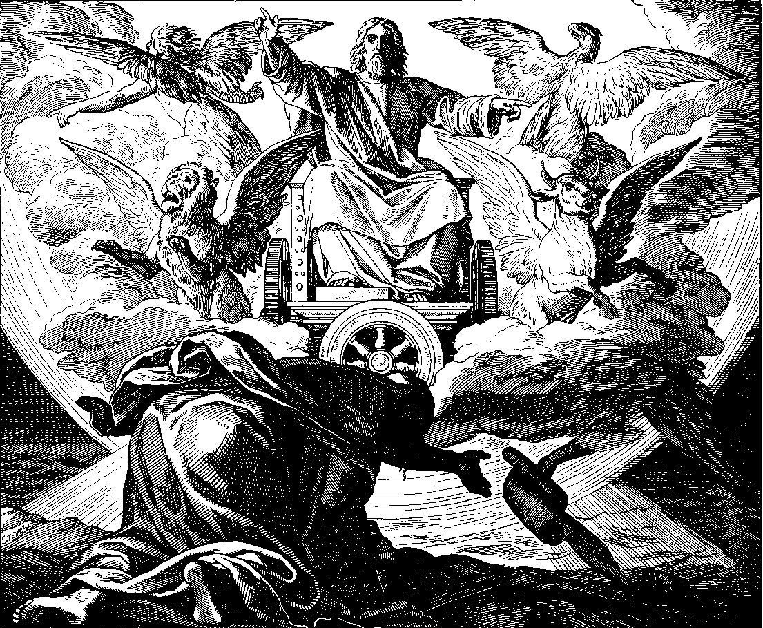 Woodcut for "Die Bibel in Bildern", 1860.